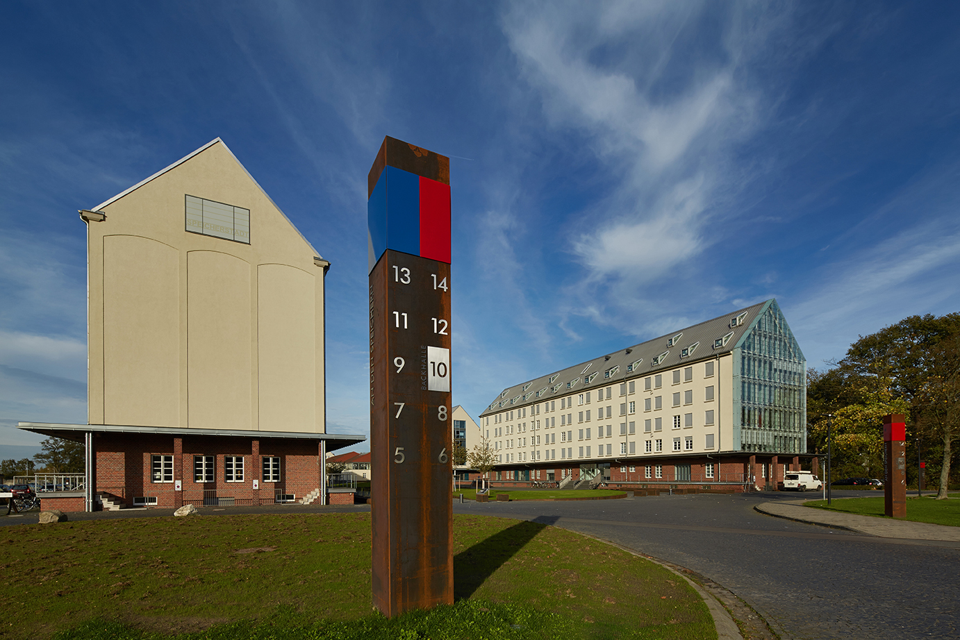 Speicherstadt Münster; Fotograf Gereon Holtschneider